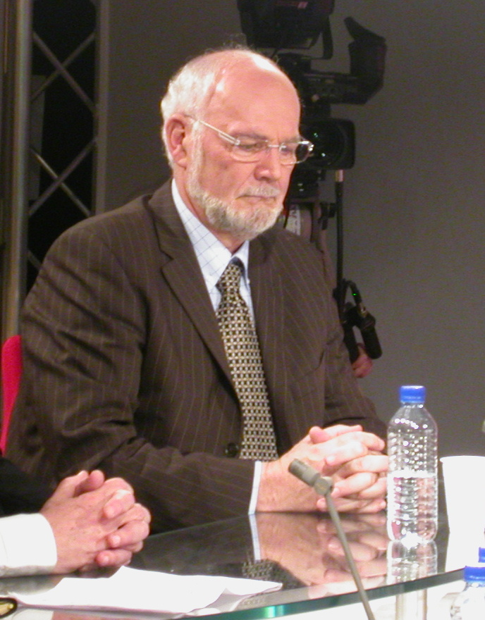 Jean-Louis Tourenne, president of the general council of the french departement Ille-et-Vilaine